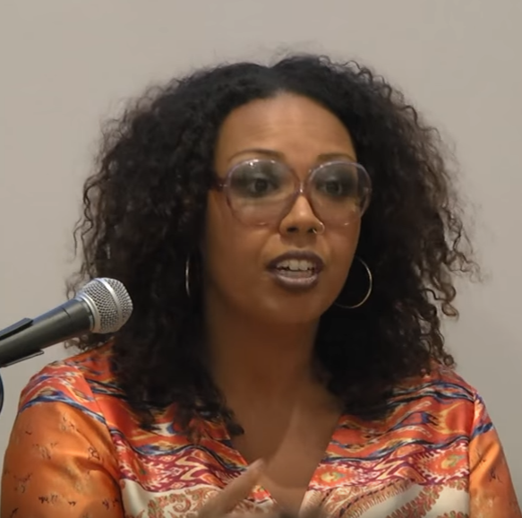 Jamilah Lemieux talking at the Brooklyn Museum in 2015. She is an African-American columnist, cultural critic, and editor based in New York City